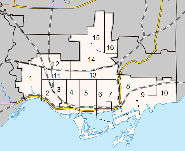 Map of Toronto